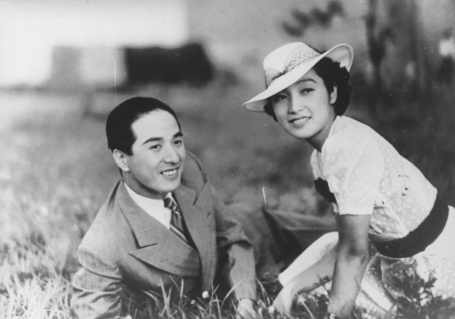 Mieko Takamine in Junjō nijūsō (純情二重奏) directed by Yasushi Sasaki - 1939